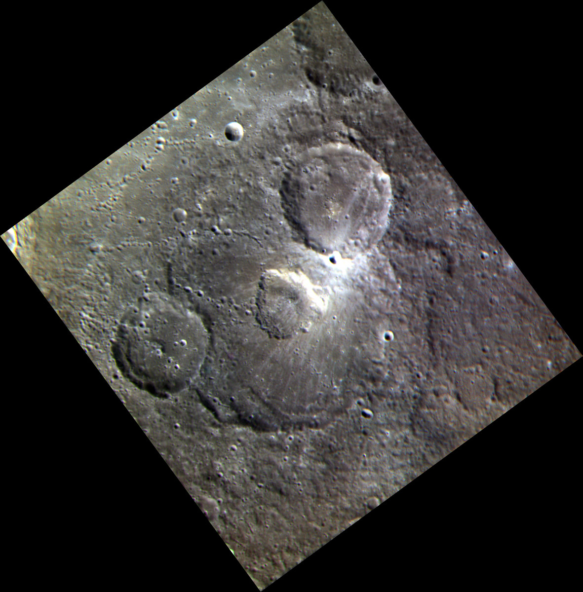 Gibran crater on Mercury. Approximate color representation combining three images acquired by MESSENGER Wide Angle Camera (EW1008684841F, EW1008684845G, EW1008684853I) with I (996.2 nm), G (748.7 nm), and F (433.2 nm) filters. Combined in GIMP software as RGB (Red-Green-Blue), and then rotated so that north is up. Statistics for I image: Emission Angle: 16.1 Incidence Angle: 47.7 Latitude: 35.8 Longitude: 248.7 Phase Angle: 61.3